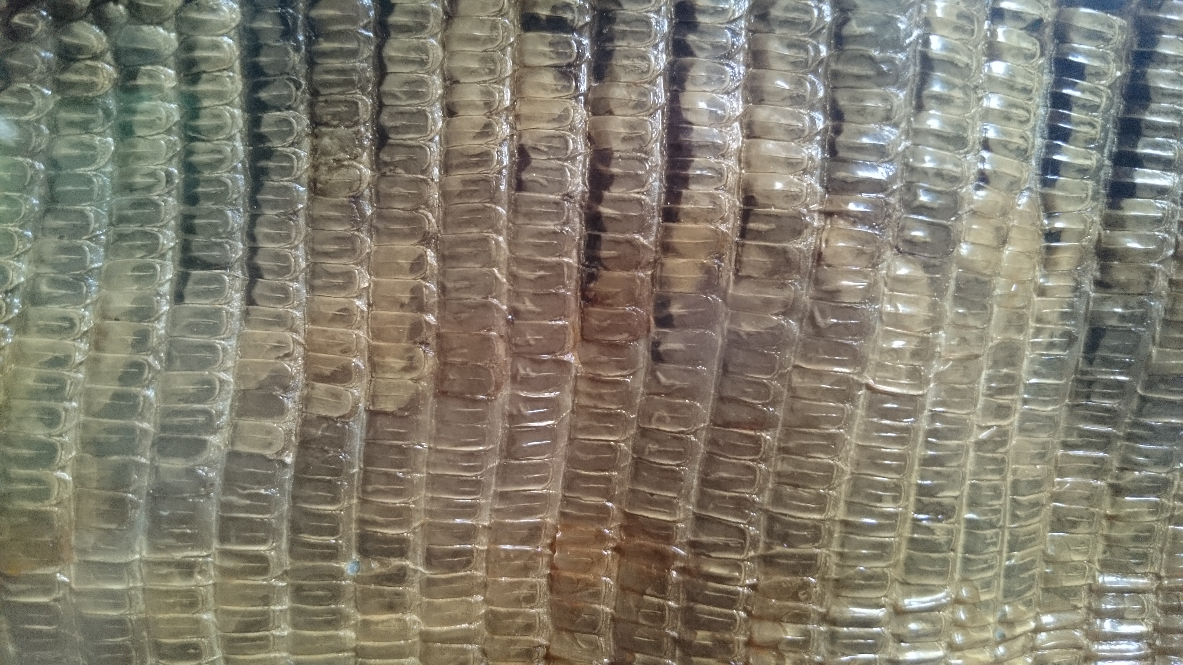 Malayan water monitor